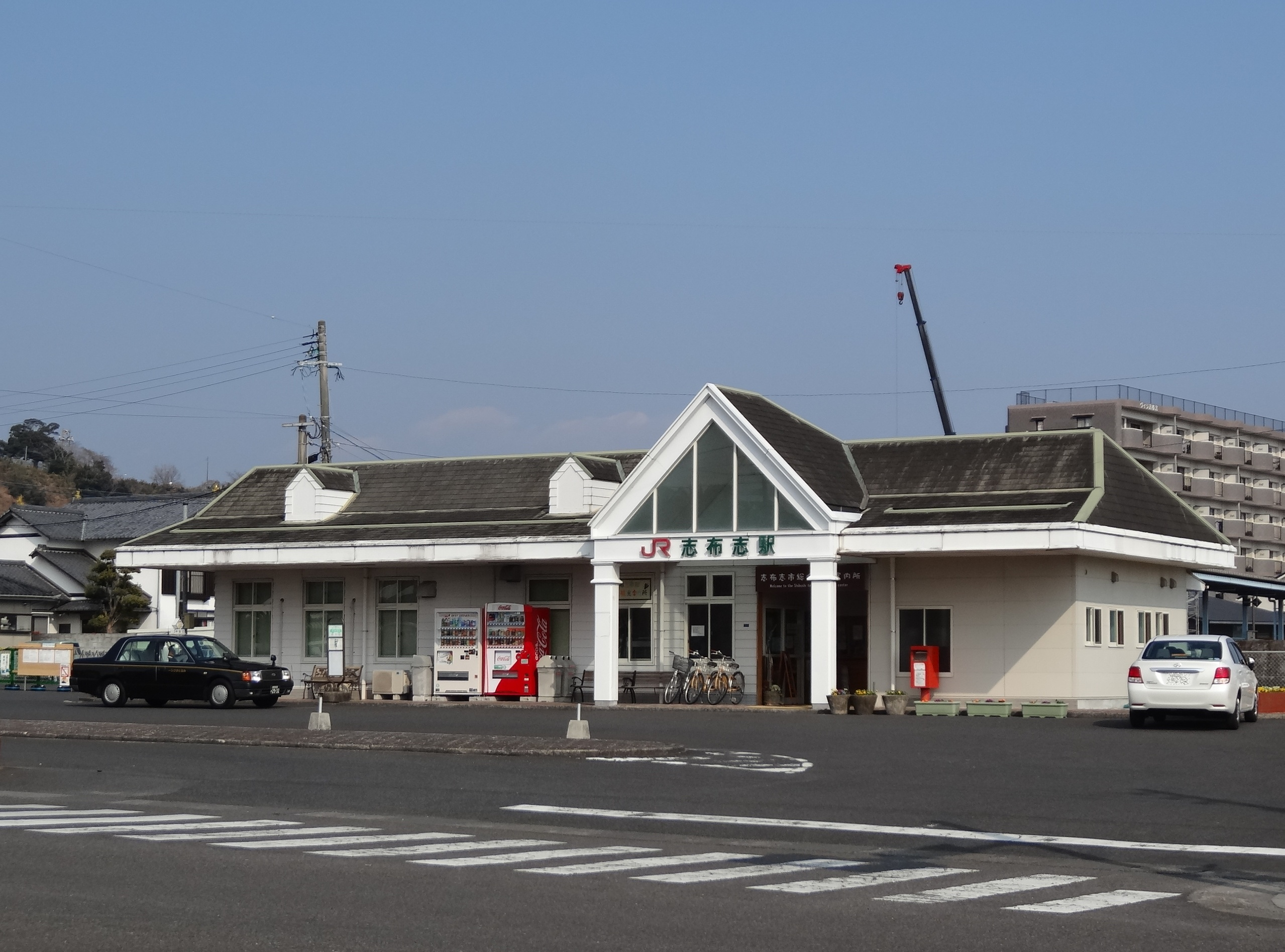 JR Nichinan Line Shibushi Station (Shibushi City, Kagoshima Prefecture, Japan)